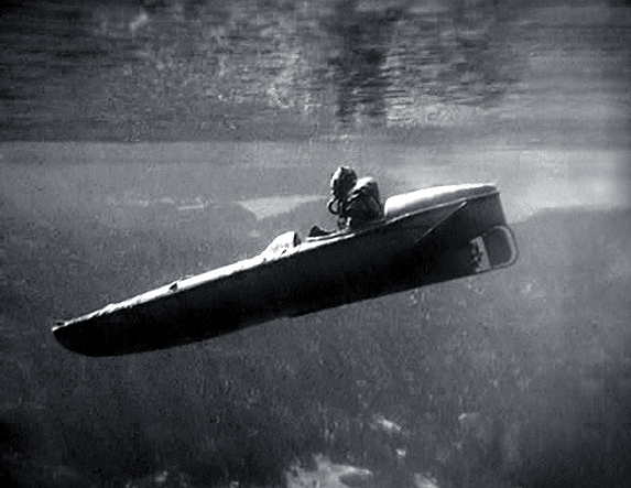 This photo is from a still taken by the US Navy during the filming of demonstrations of the Motorised Submersible Canoe in the USA during 1944. The film was later used by both the SOE/Royal Marines and OSS, as part of their training film.